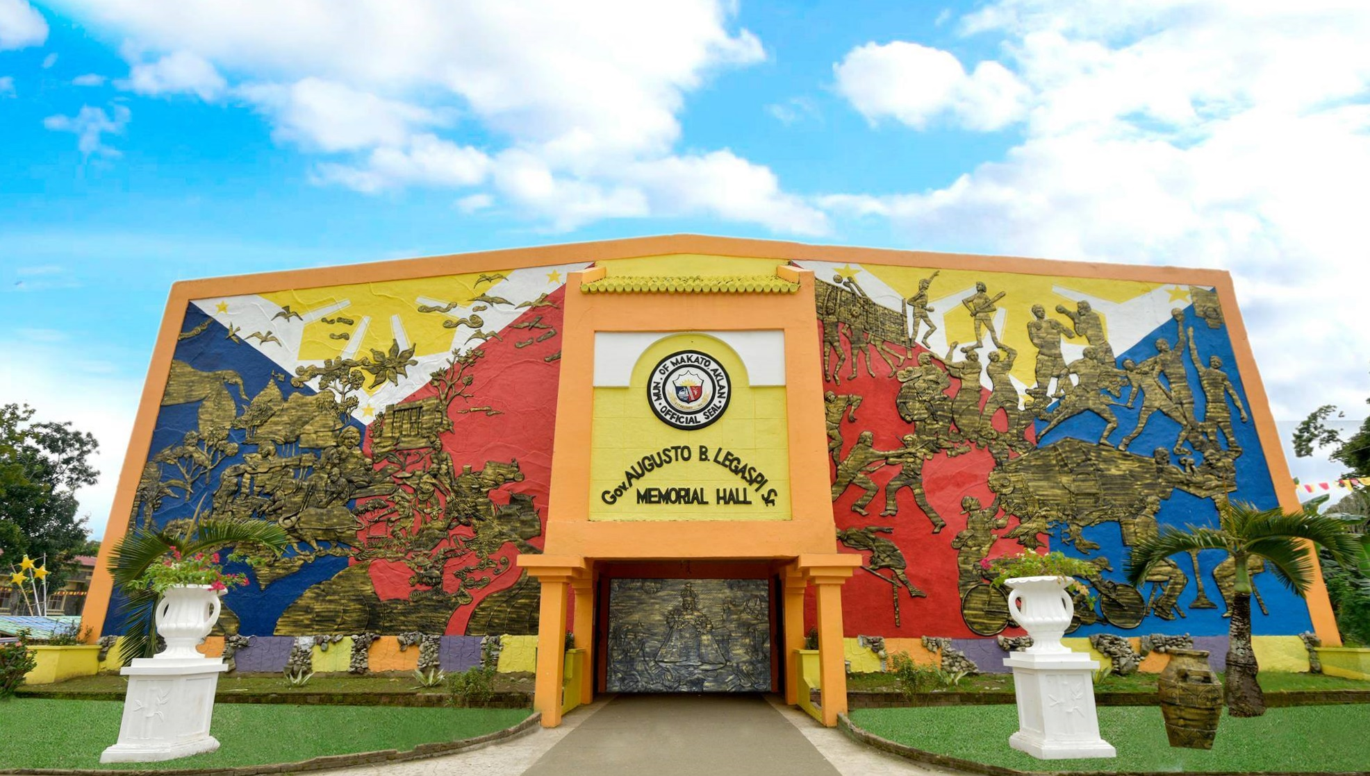 Gov. Augusto B Legaspi Sr. Memorial Hall at the Makato Sports Complex